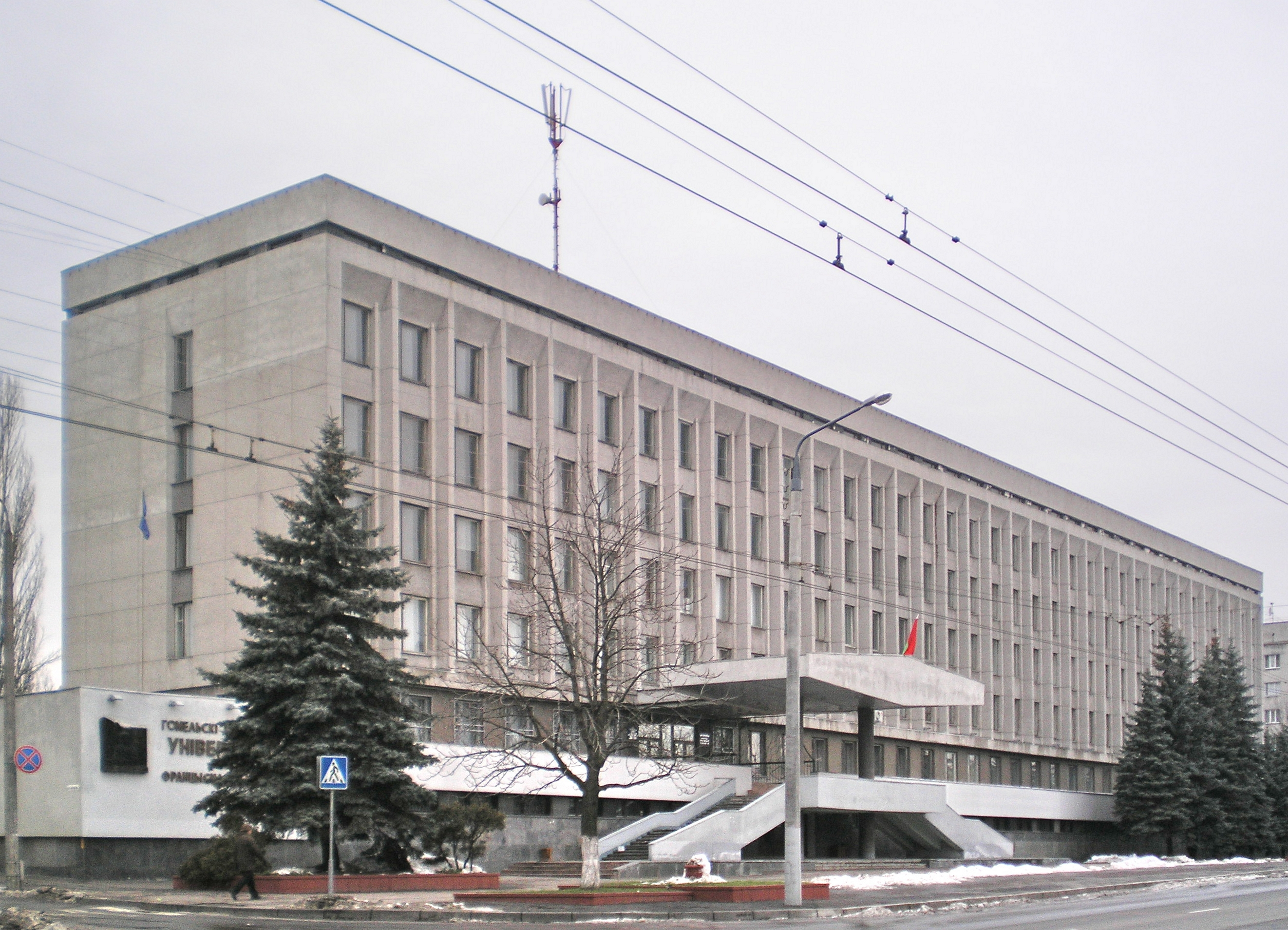 Gomel State University